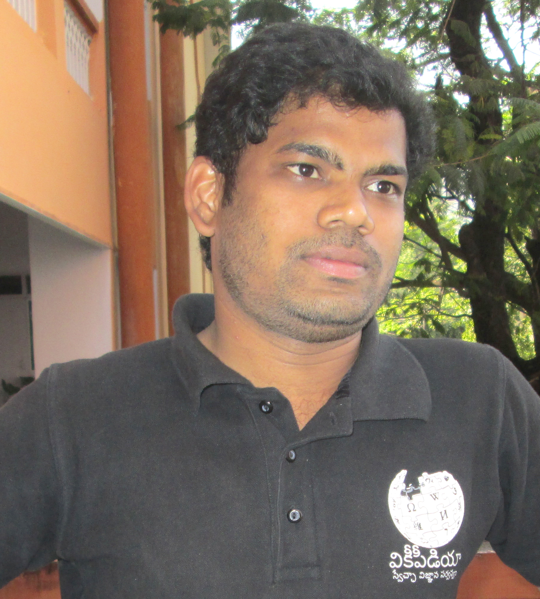 నా వ్యక్తిగత చిత్రపటము